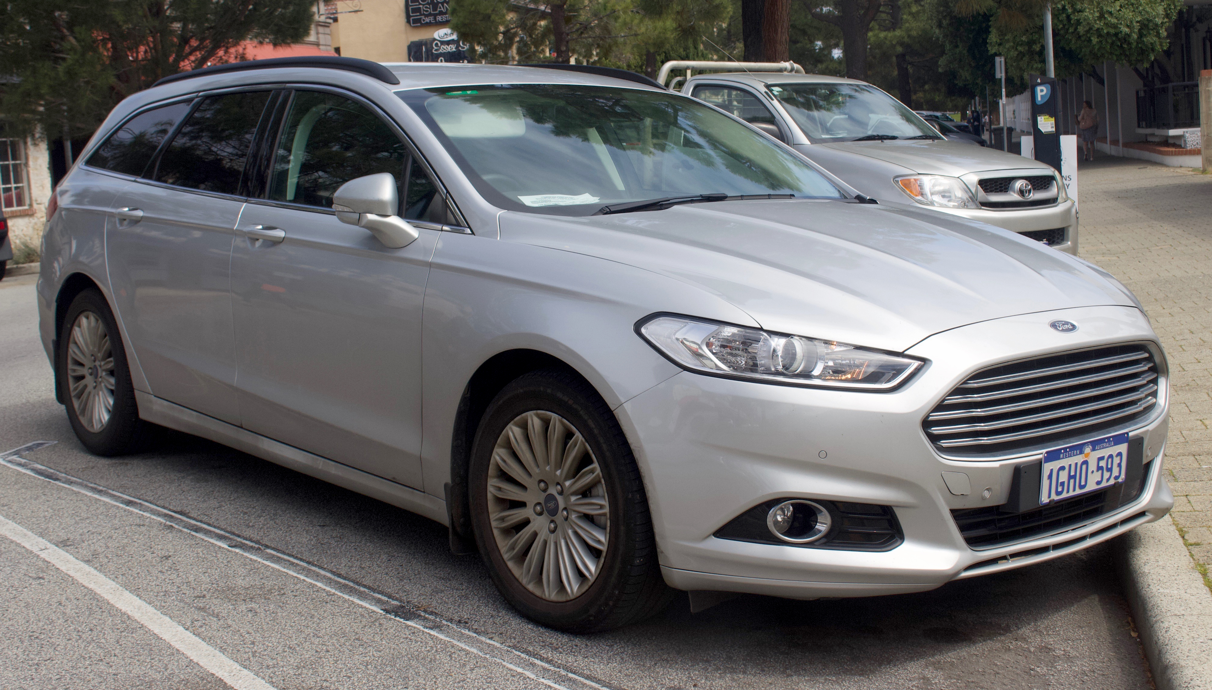 2017 Ford Mondeo (MD) Trend station wagon. Photographed in Fremantle, Western Australia, Australia.